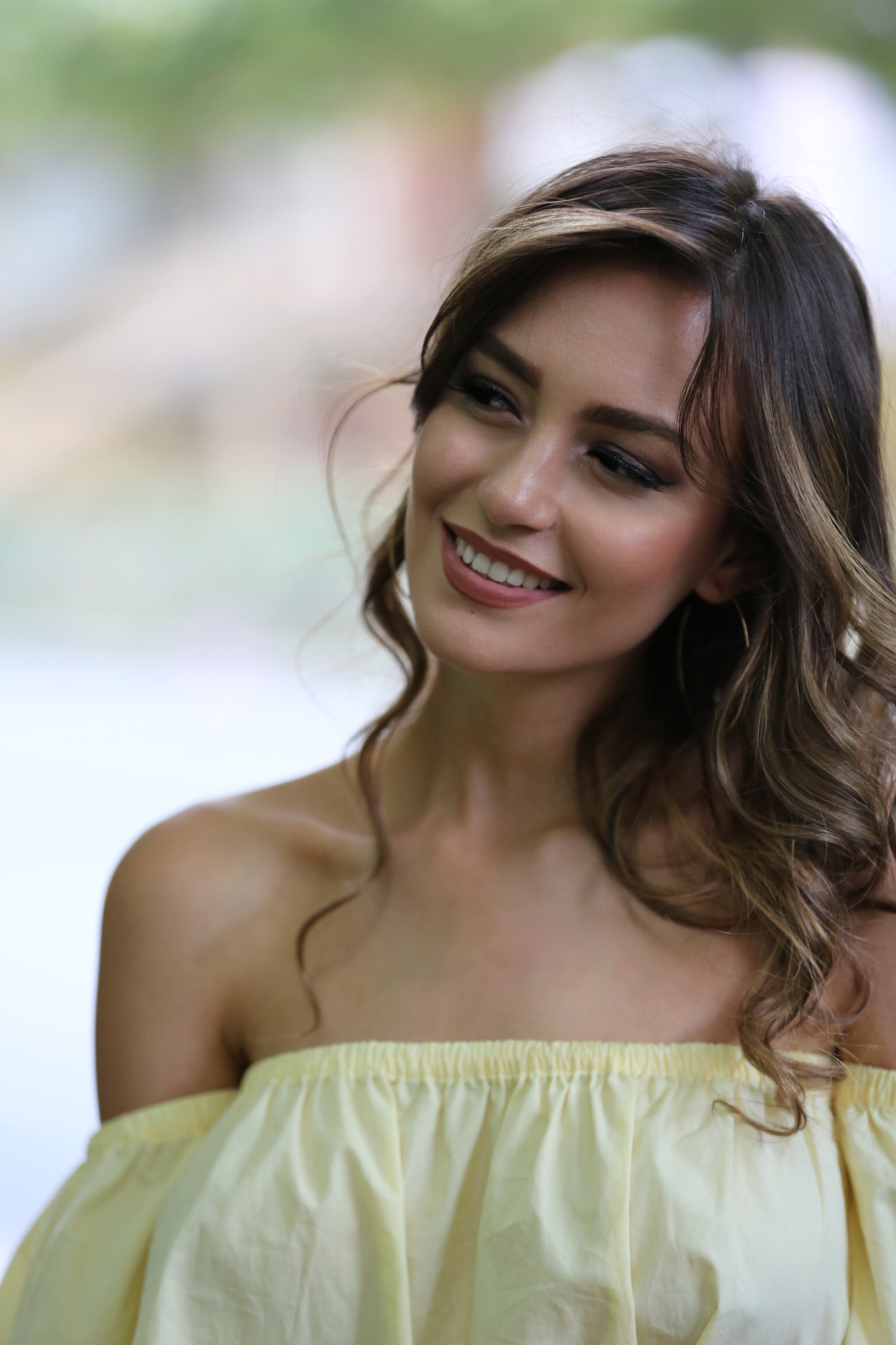 Eva Murati Profile Picture